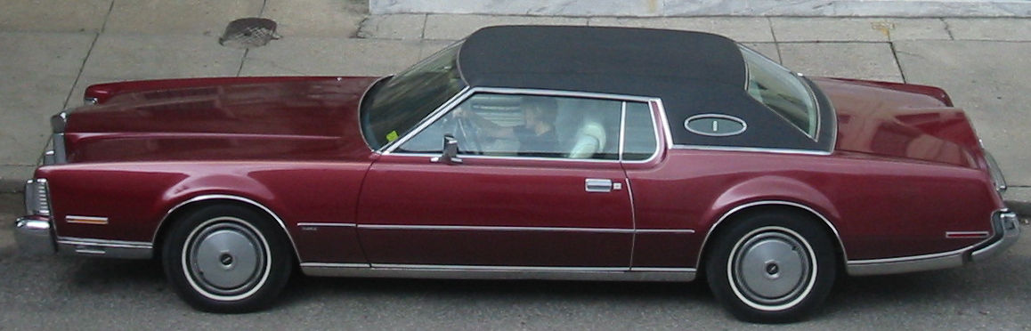 Image description: 1973 Lincoln Continental Mark IV Photographer: duke-z Location: USA/Louisiana/New Orleans/Prytania & Josephine Date: June 21, 2003